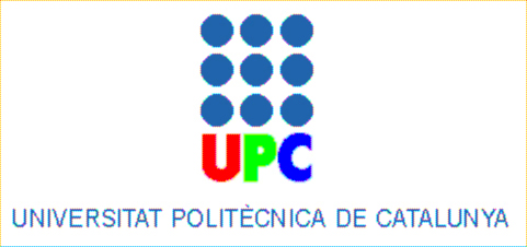 demosaiced of bayer image